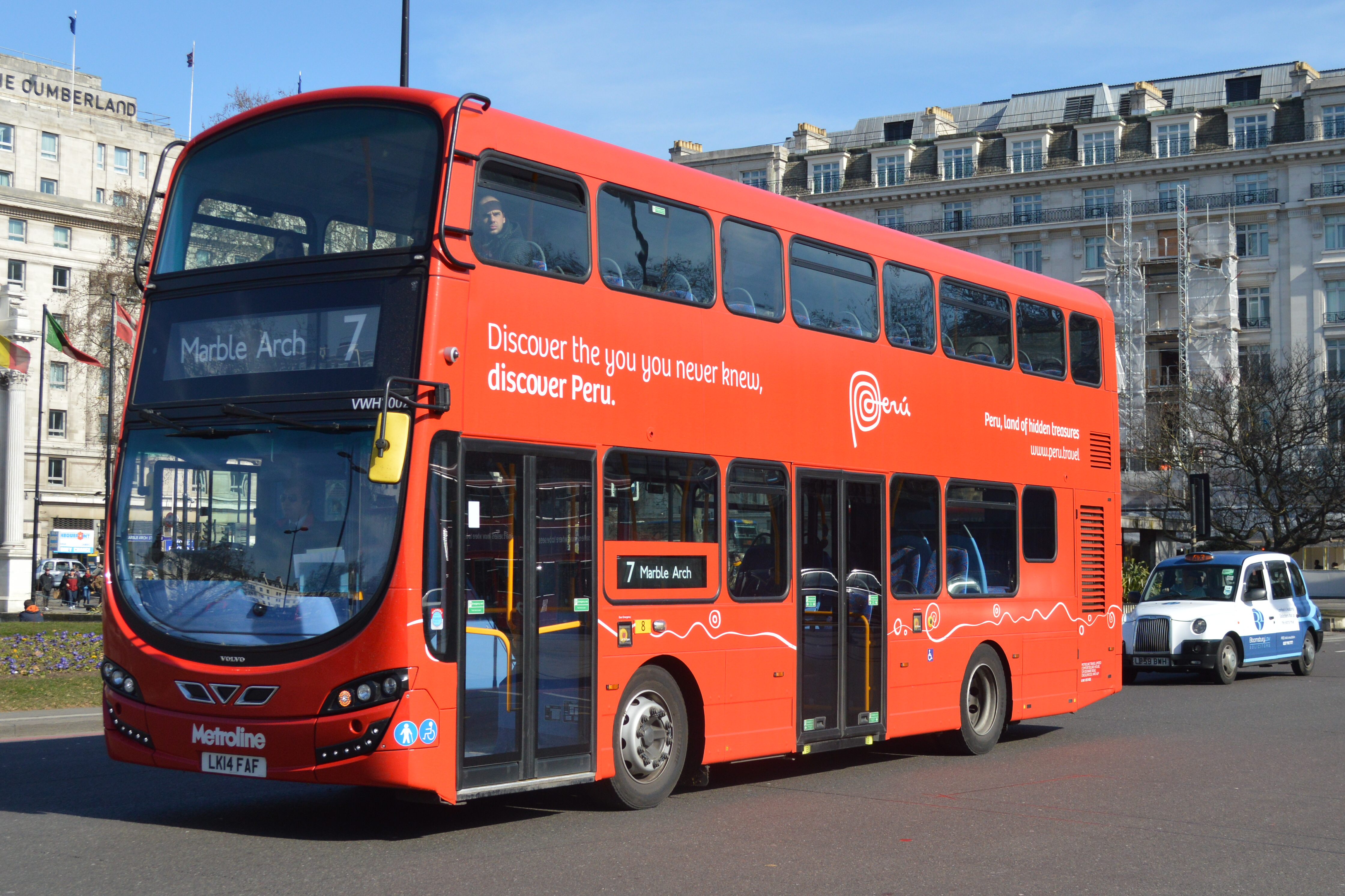 Metroline Wright Eclipse Gemini 3 bodied Volvo B5LH in Marble Arch on route 7 in 2015